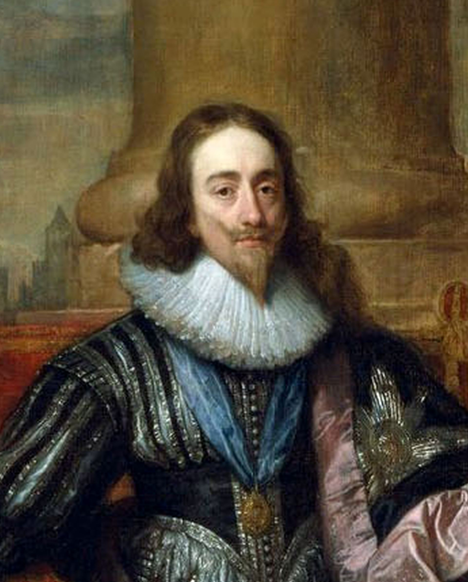 Charles I of England.